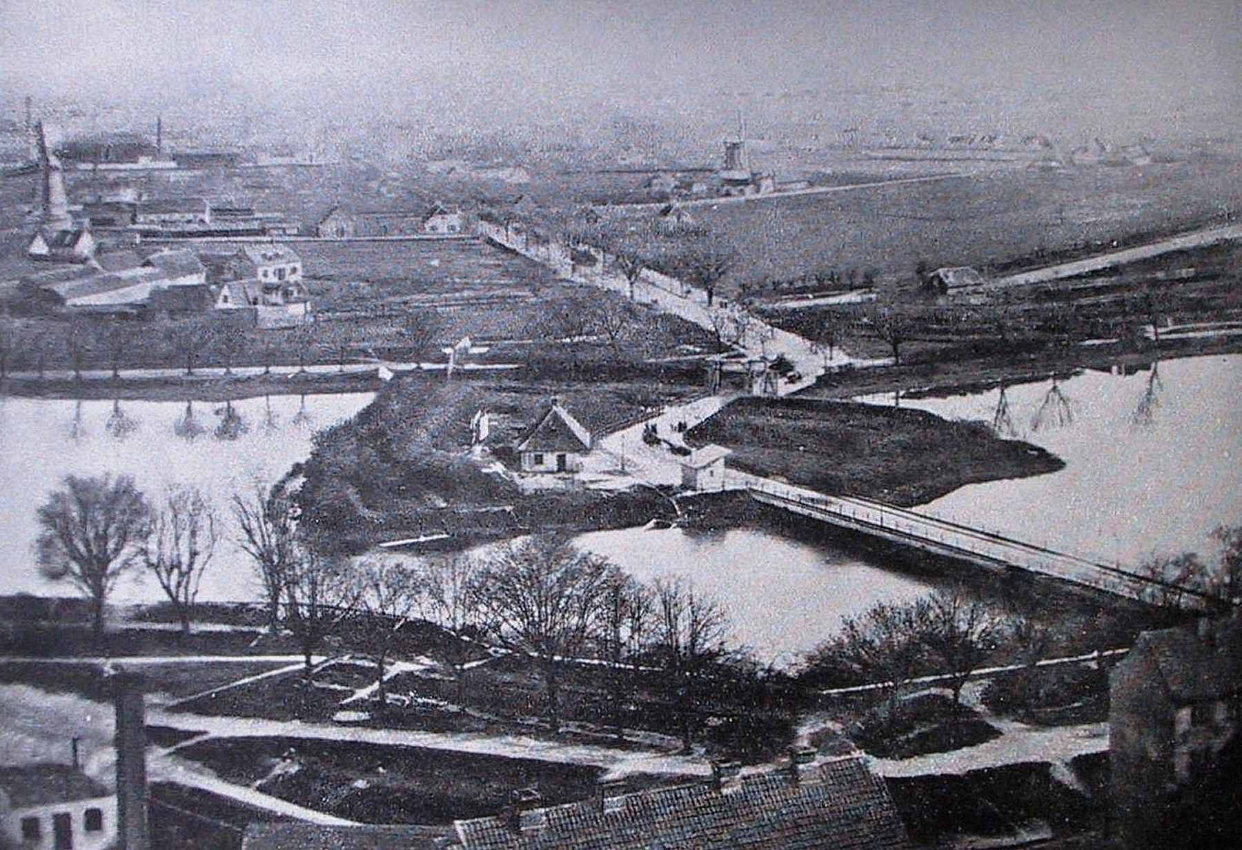 Revelinen viewed from the tower of Church of Our Savior in Copenhagen, Denmark